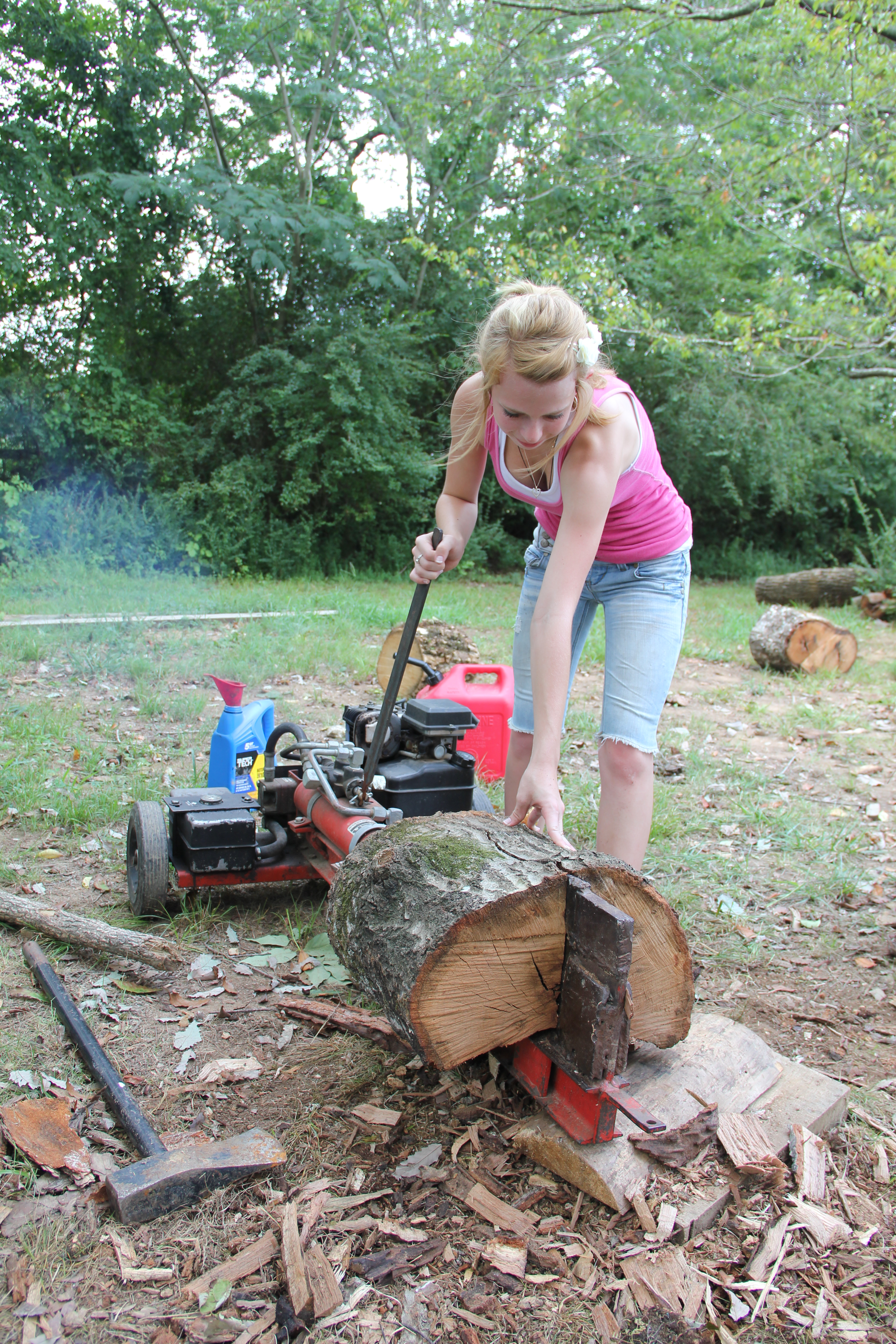 A 16 year old girl splitting logs with a gas powered log splitter at Ferncliff Camp & Conference Center near Ferndale, Pulaski County, Arkansas, United States.